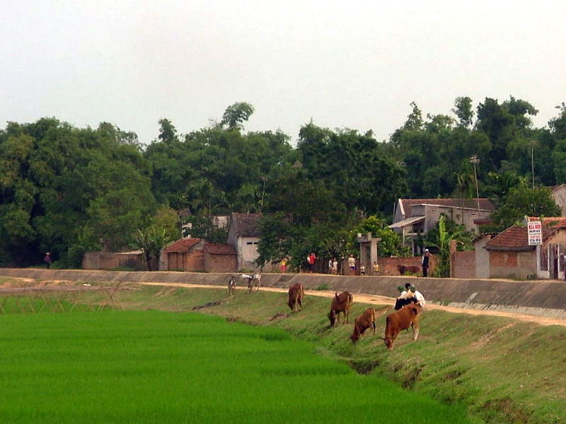 A Vietnamese rice field I met when I travelled.